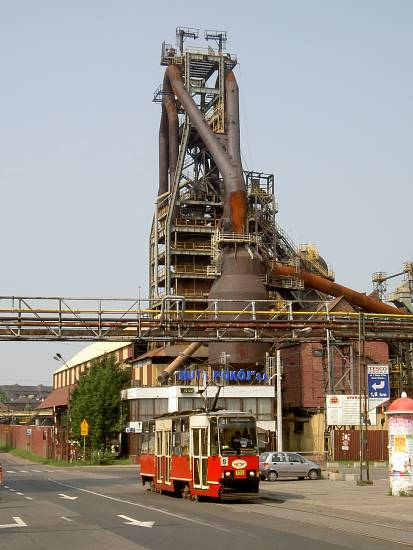 105Na Type car in front of an iron blast furnace